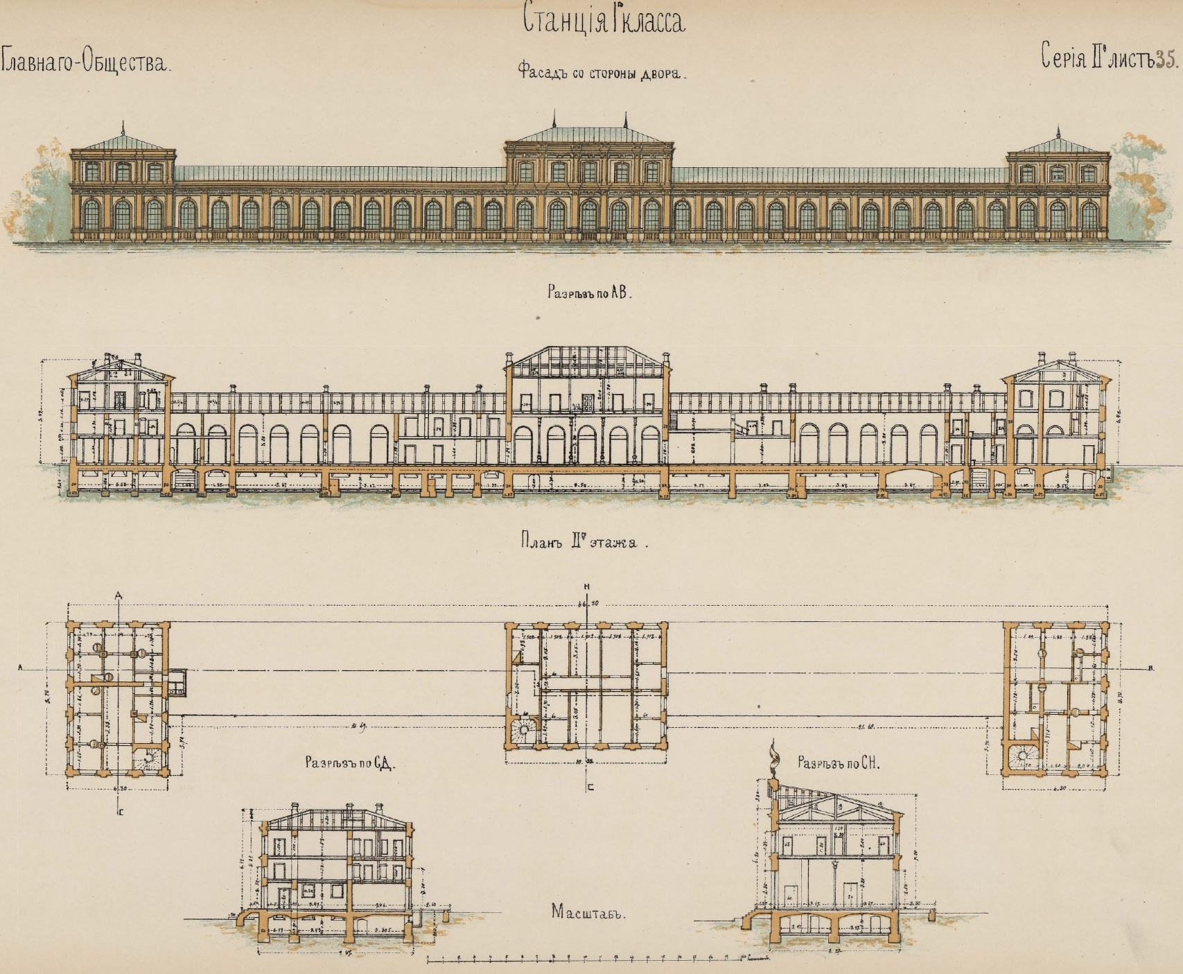 Warsaw station. Saint Petersburg–Warsaw railway. Russian Empire